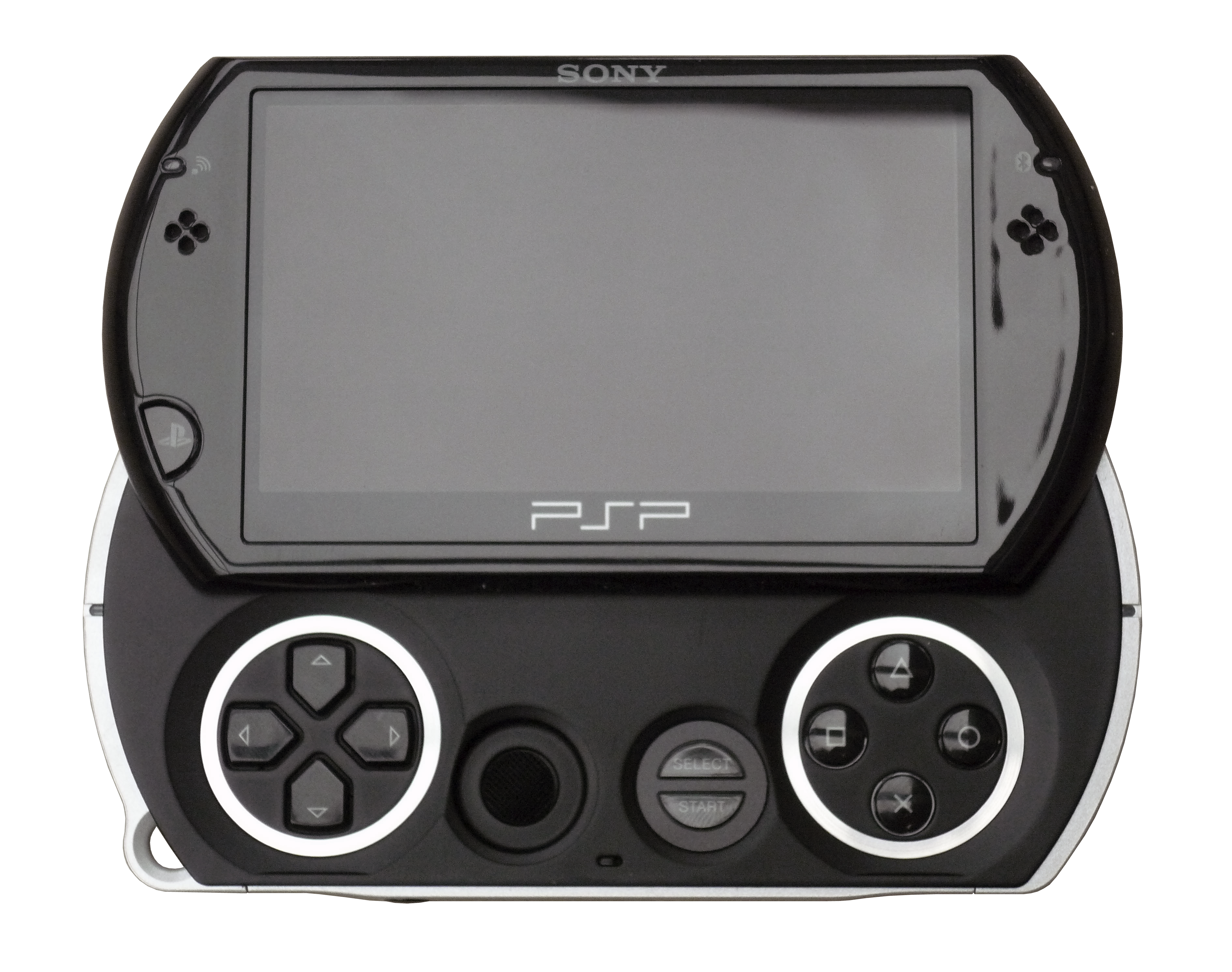 PSP Go